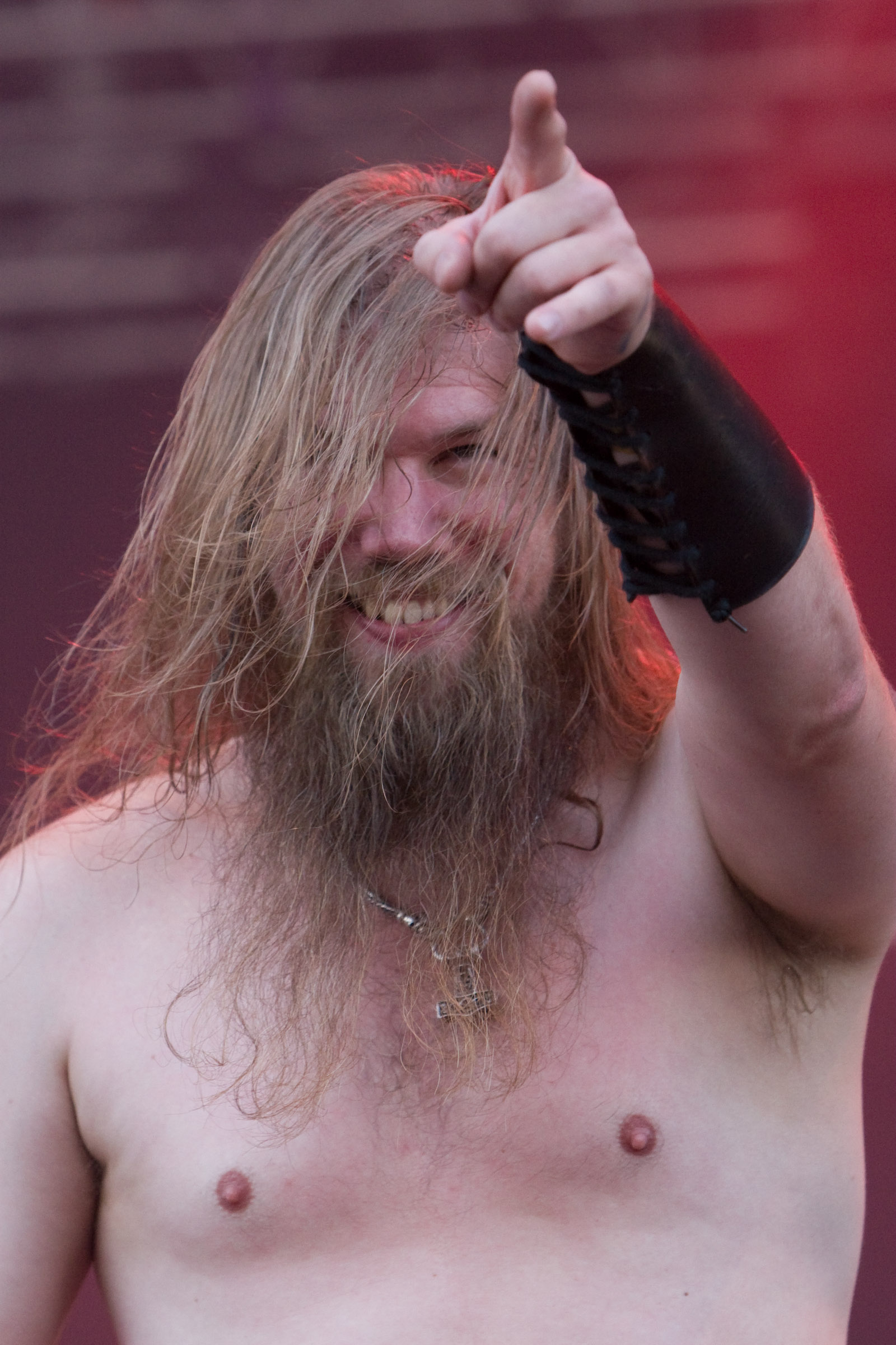 Johan Hegg of Amon Amarth Photo by Matthias 'mattness' Bauer, mattness photography.